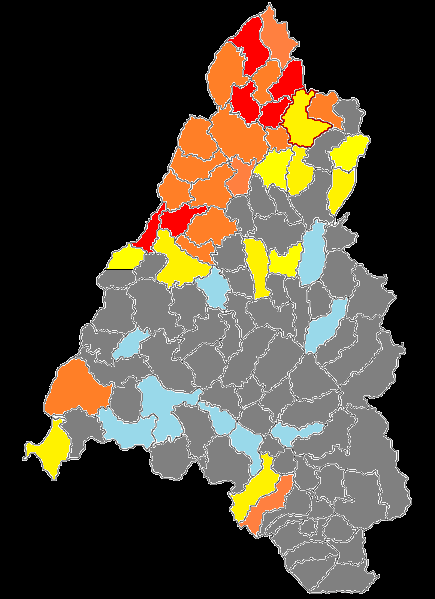 Hungarian minority in Bihor County (Romania), according to the 2011 census, by communes (red = hungarian majority over 80%, orange = hungarian majority between 50 - 70%, yellow = hungarian minority over 20%, blue = hungarian minority between 10 - 20%, grey = hungarian minority under 10%).